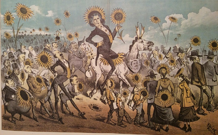 Cartoon depicting Oscar Wilde's 1882 visit to San Francisco.